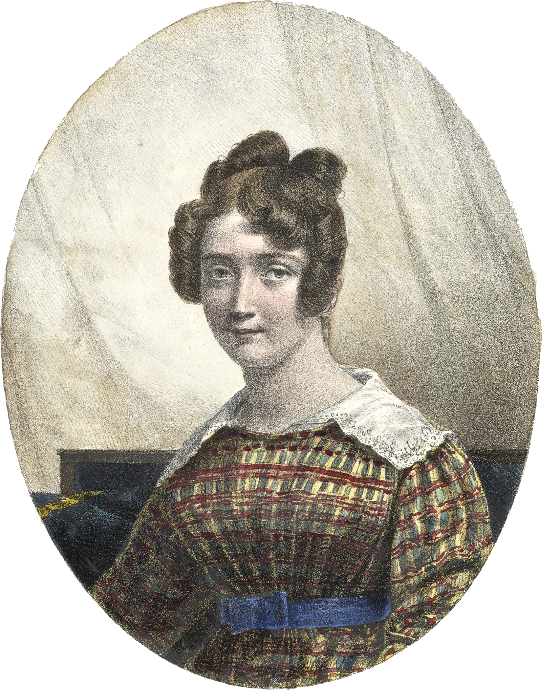 Portrait of Marie Dorval (1798-1849), French actress.